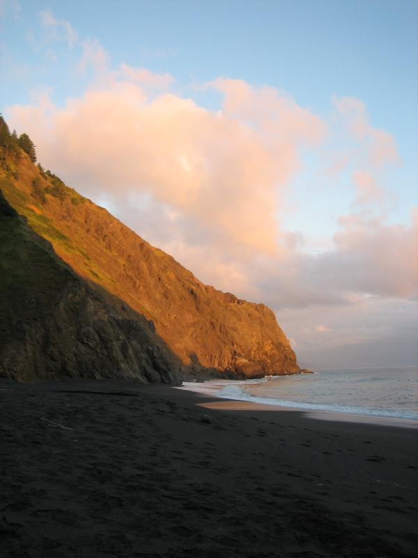 The Lost Coast is a section of California's north coast in Humboldt County.